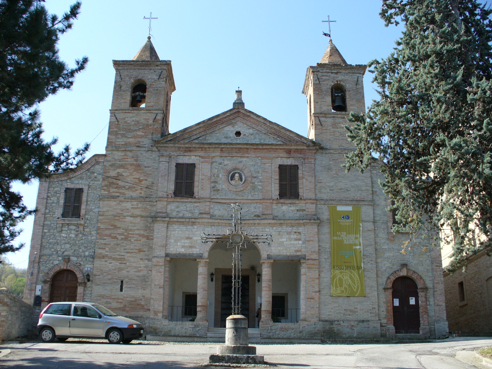 Santa Viviana Church All my Google Earth Placemarks